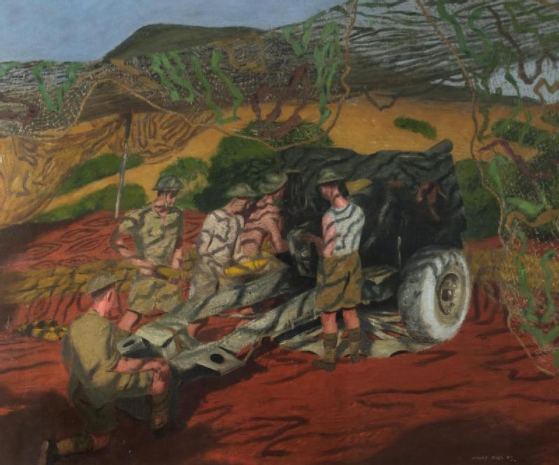 A Camouflaged 25-pounder Gun in Action near Medjez-el-bab- the Hill in the Background is Dzebel Djaffa, Tunis image: Five British soldiers man a 25-pounder artillery gun, all covered by camouflage netting. A large hill is visible in the background and apart from some vegetation the landscape is largely arid.